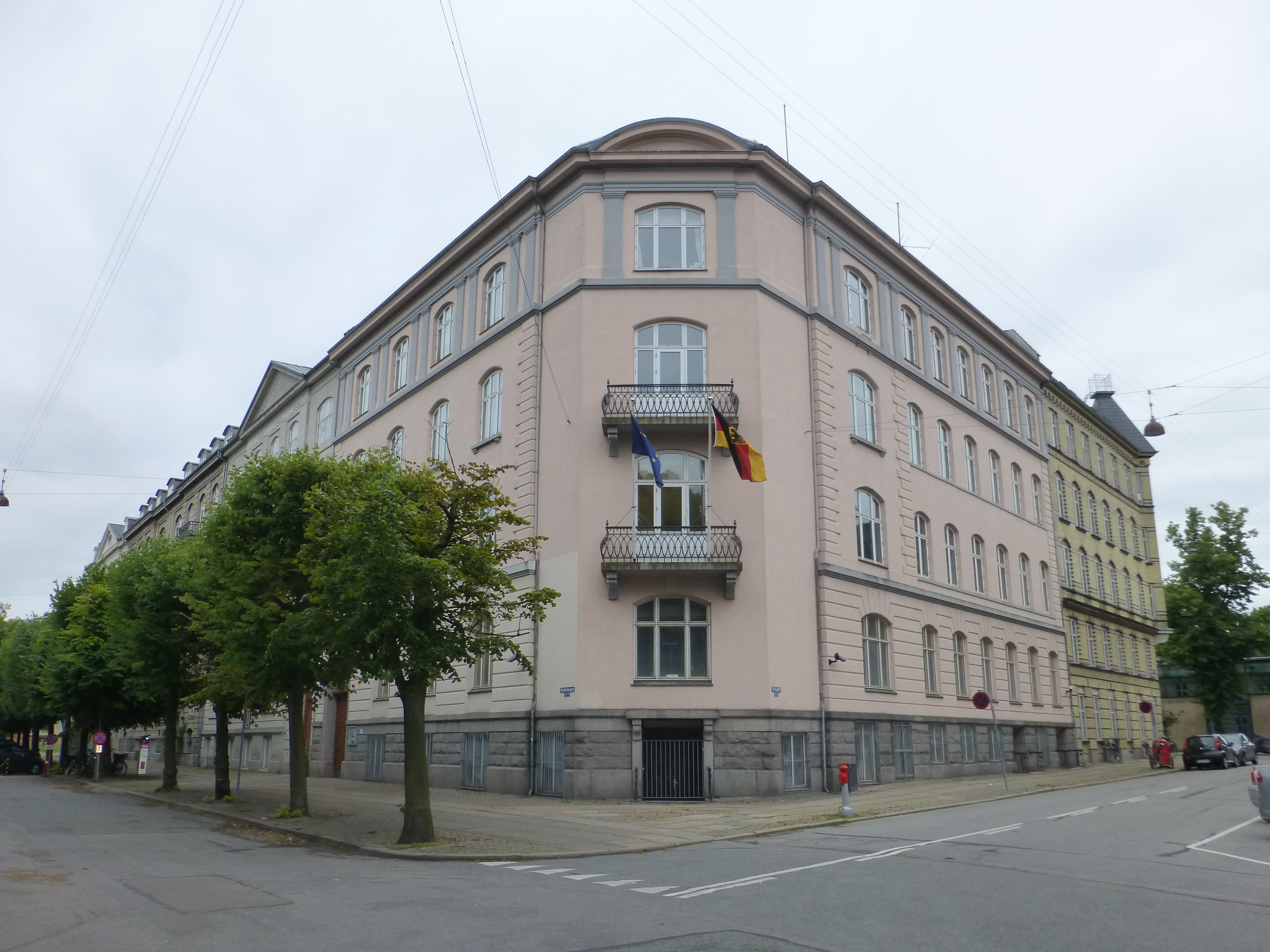 The embassy of Germany at the corner of Stockholmsgade and Visbygade in Østerbro in Copenhagen. In February 2018 the embassy moved to Portland Towers at Göteborg Plads.